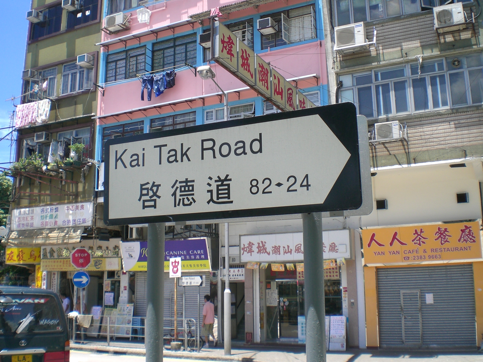 九龍城zh:啟德道